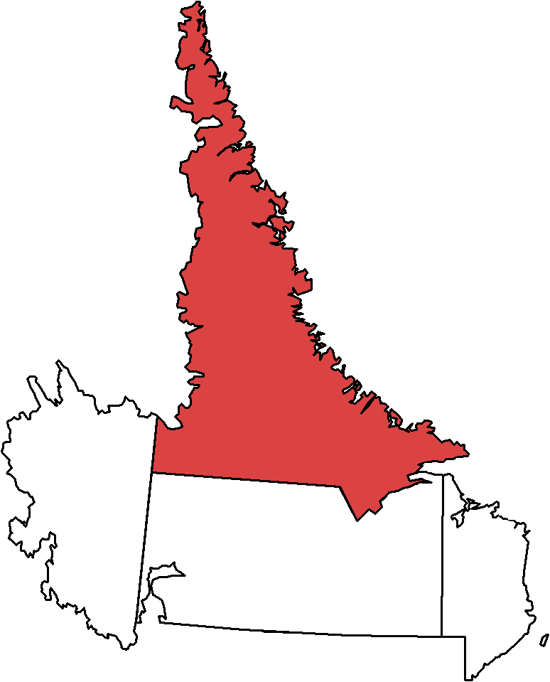 Map based on work by Earl Andrew, from maps used in 2007 elections